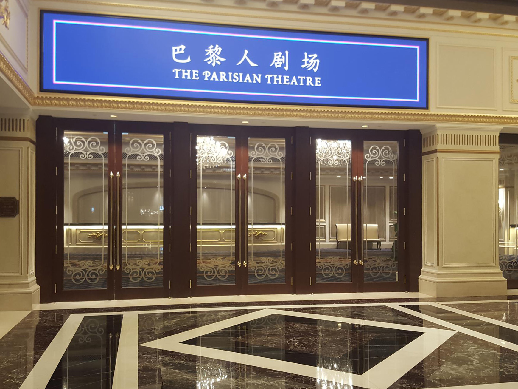 The Parisian Theatre